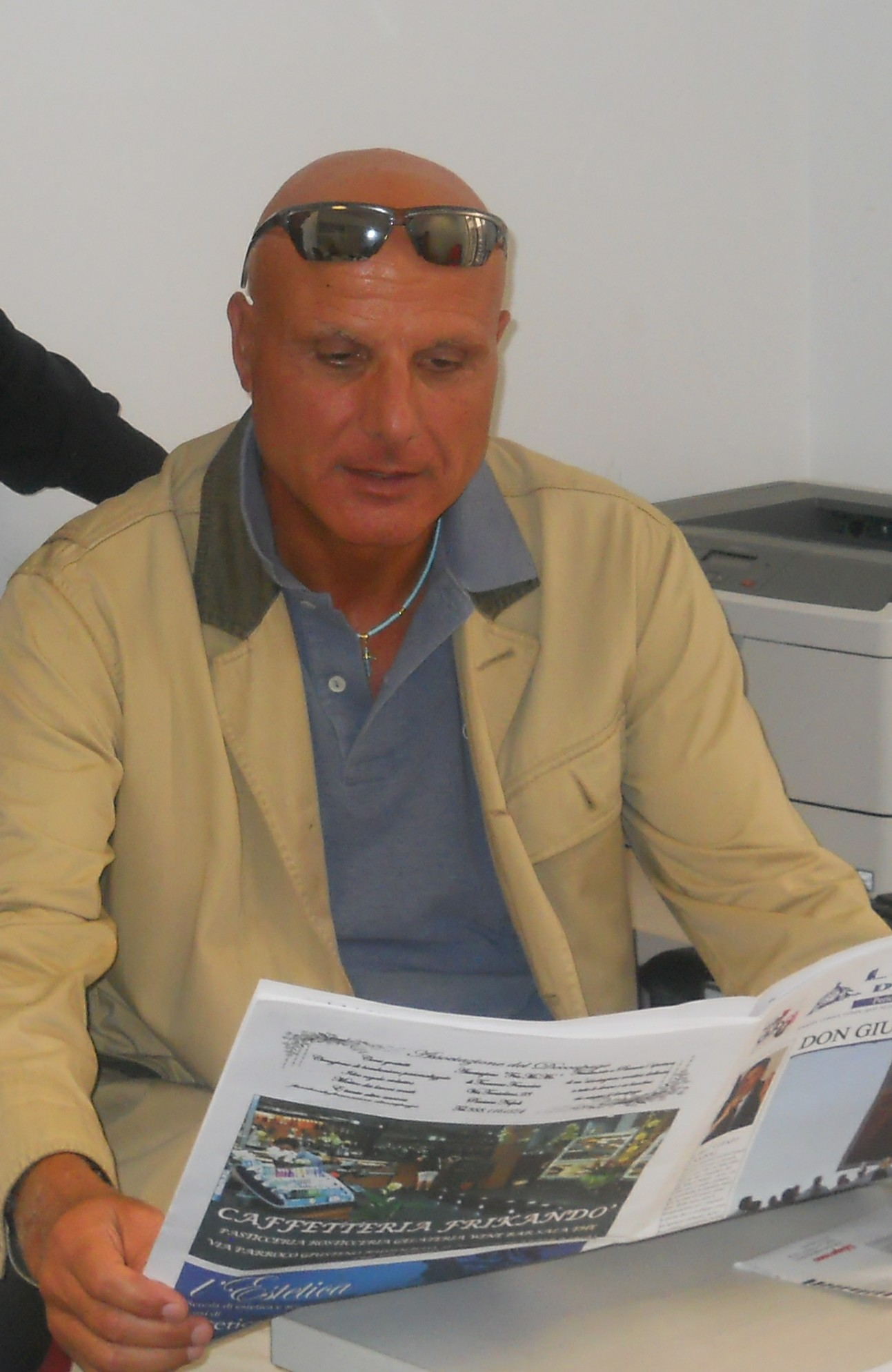 Gildo De Stefano at work in the Italian newspaper